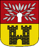 Coat of arms of Felben-Wellhausen, Canton of Thurgau, SwitzerlandEsperanto: Blazono de Felben-Wellhausen, Kantono Turgovio, Svislando